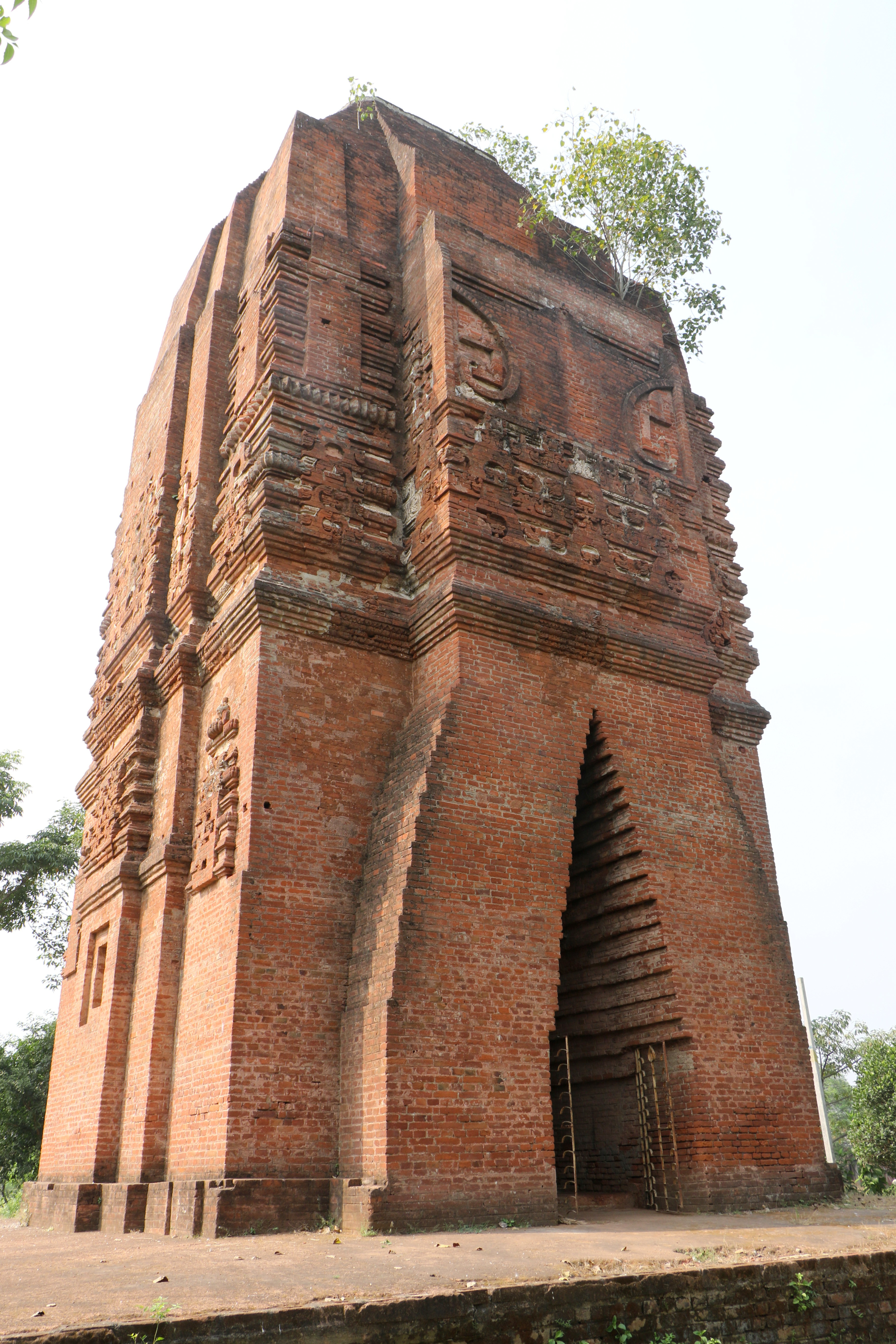 Found in a dilapidated condition, this brick built rekha deul is one of the best specimen of temple architecture of Bankura. Though a substantial portion of the temple was rebuild at the time of conservation, the temple still retains some of the early stucco work on the decorated bricks. Sonatapal@Bankura@WestBengal@India (As written in the board by ASI - WB)